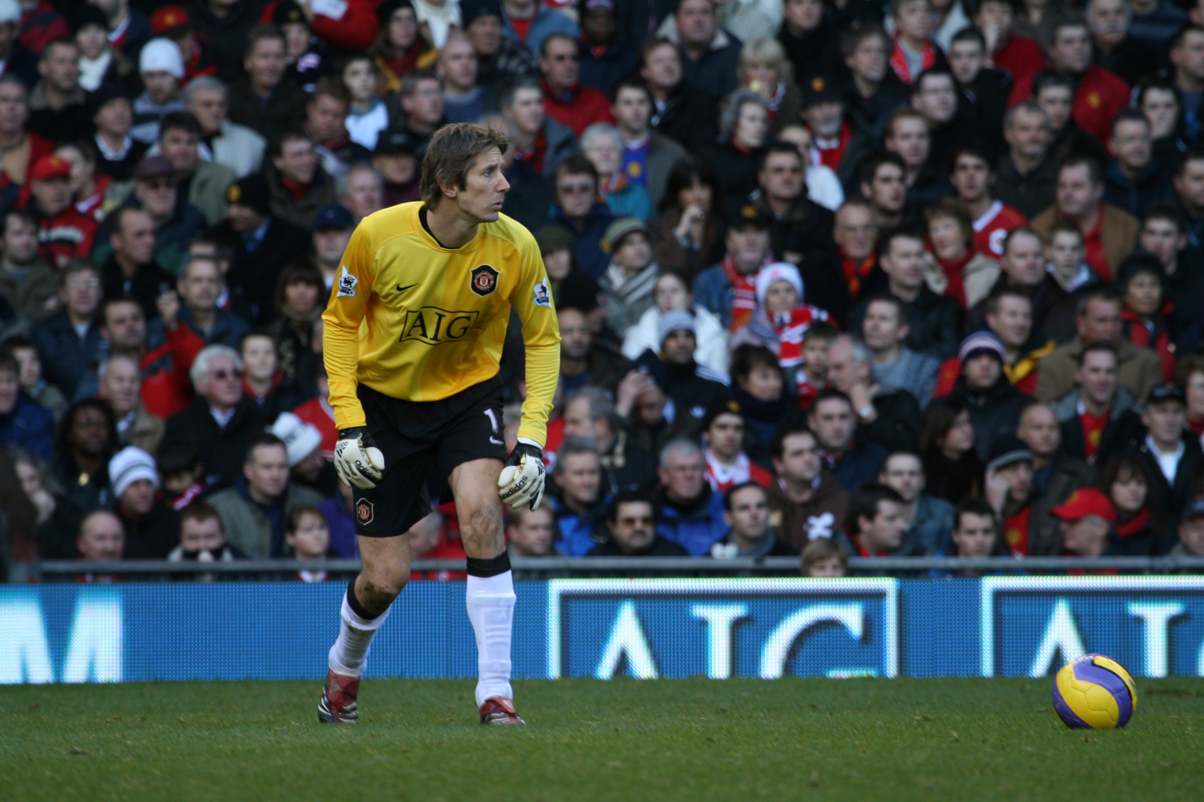 Edwin van der Sar playing for Manchester United F.C.